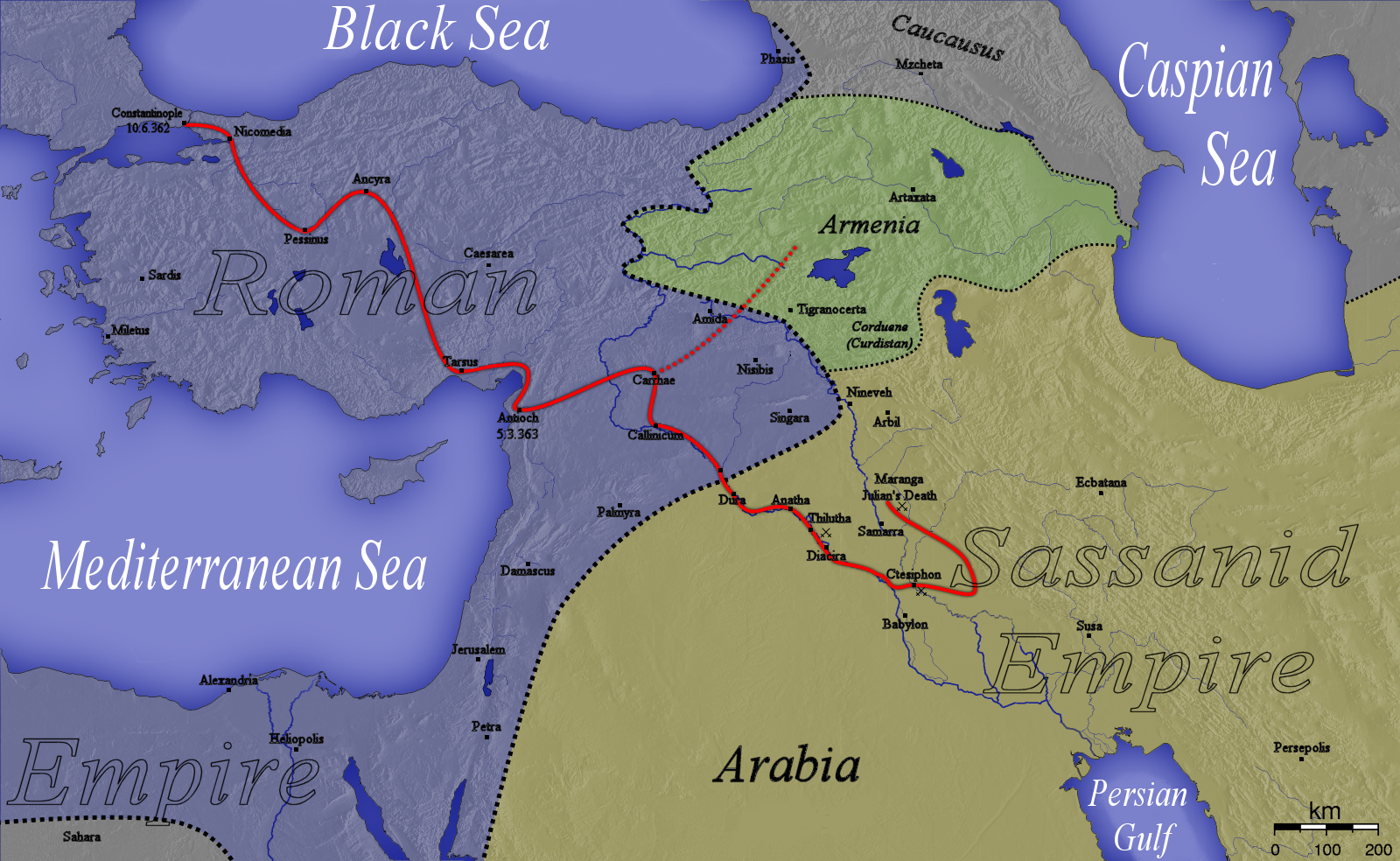 Julian Campaign in 363